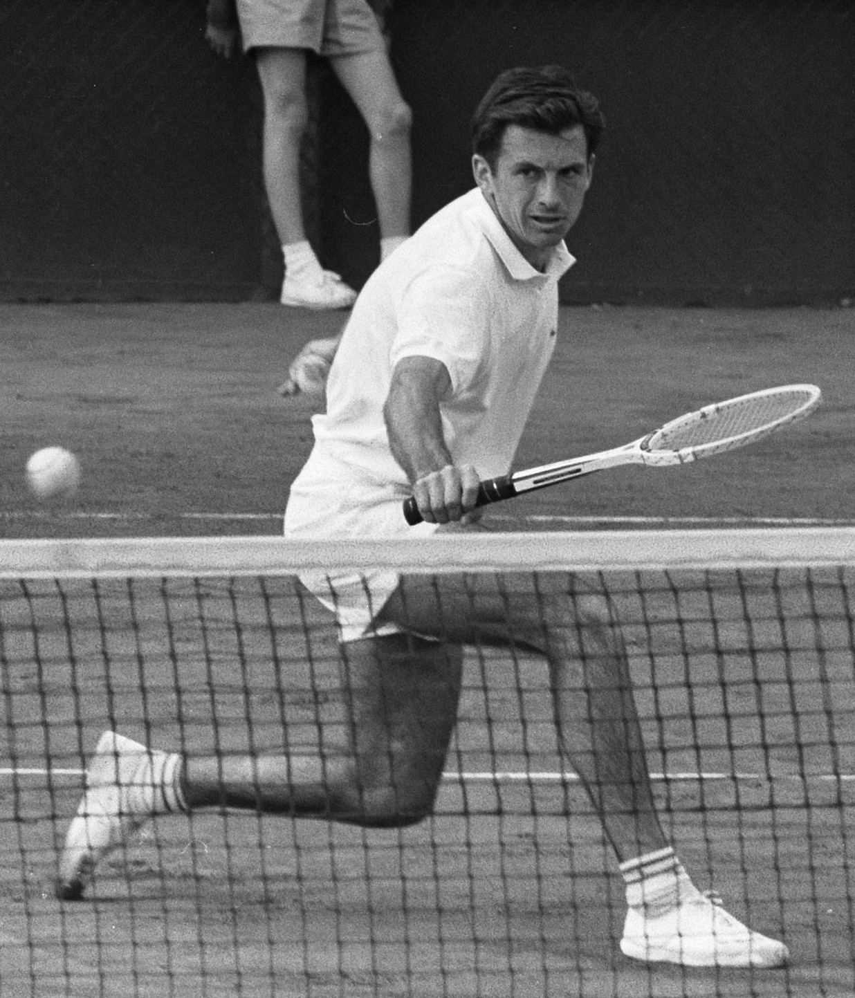 Australian professional tennis player Ashley Cooper